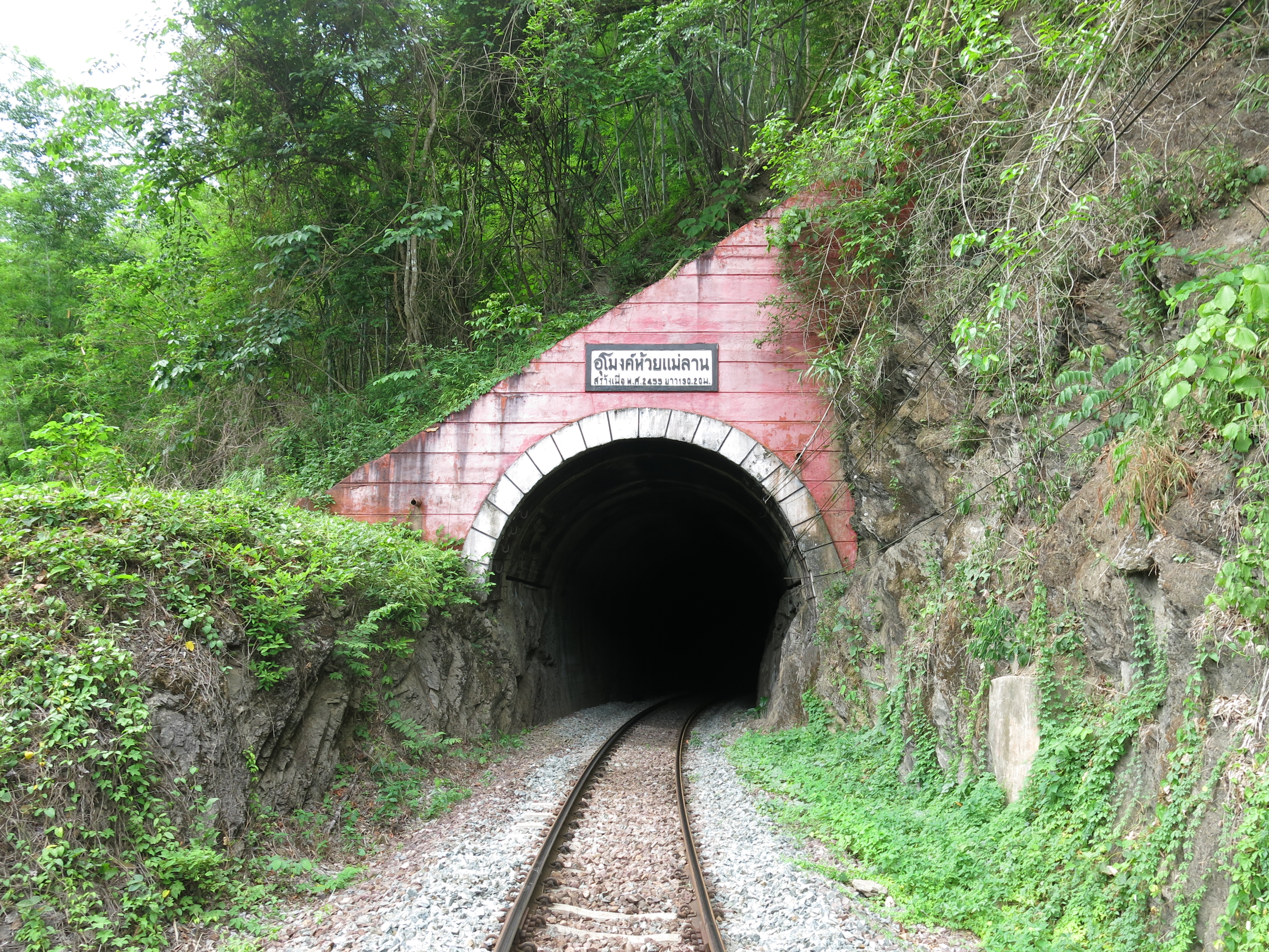 This is the northern portal of Huai Mae Lan Tunnel, Phrae - Photo by Mark Robinson